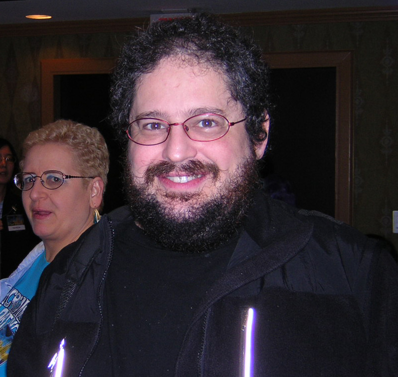 Always a trendsetter, Stross is already pursued by Hair Disciples.